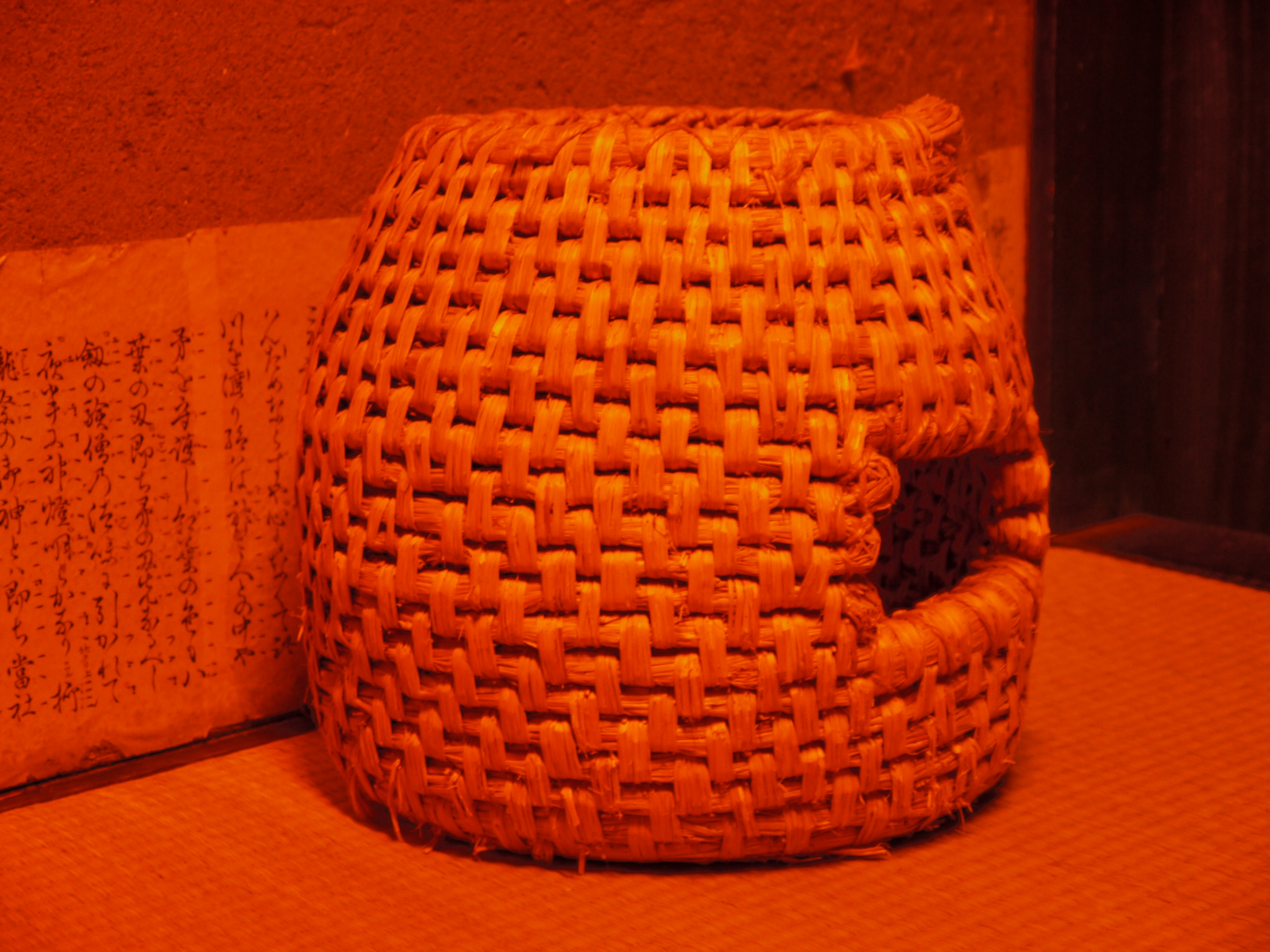 Information